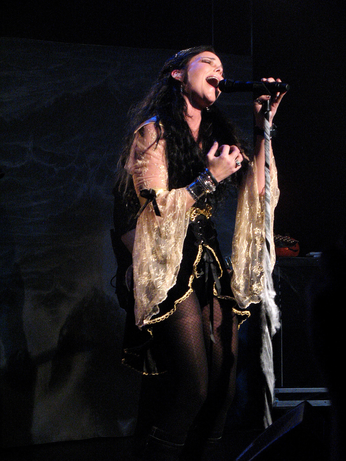 Anette Olzon of Nightwish Halloween, 2007 at the Showbox, Seattle